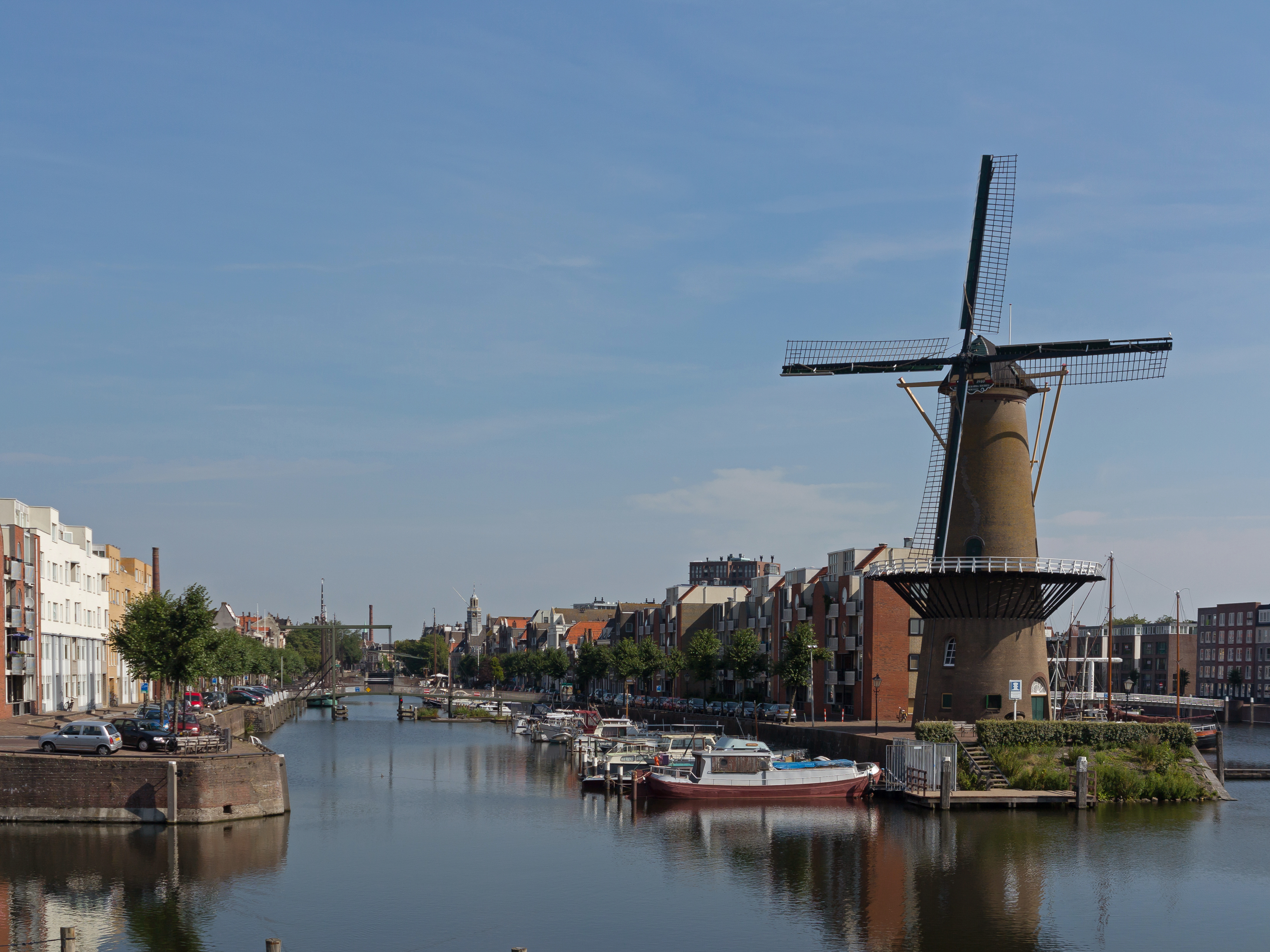 Rotterdam-Delfshaven, windmill: windkorenmolen de Distilleerketel